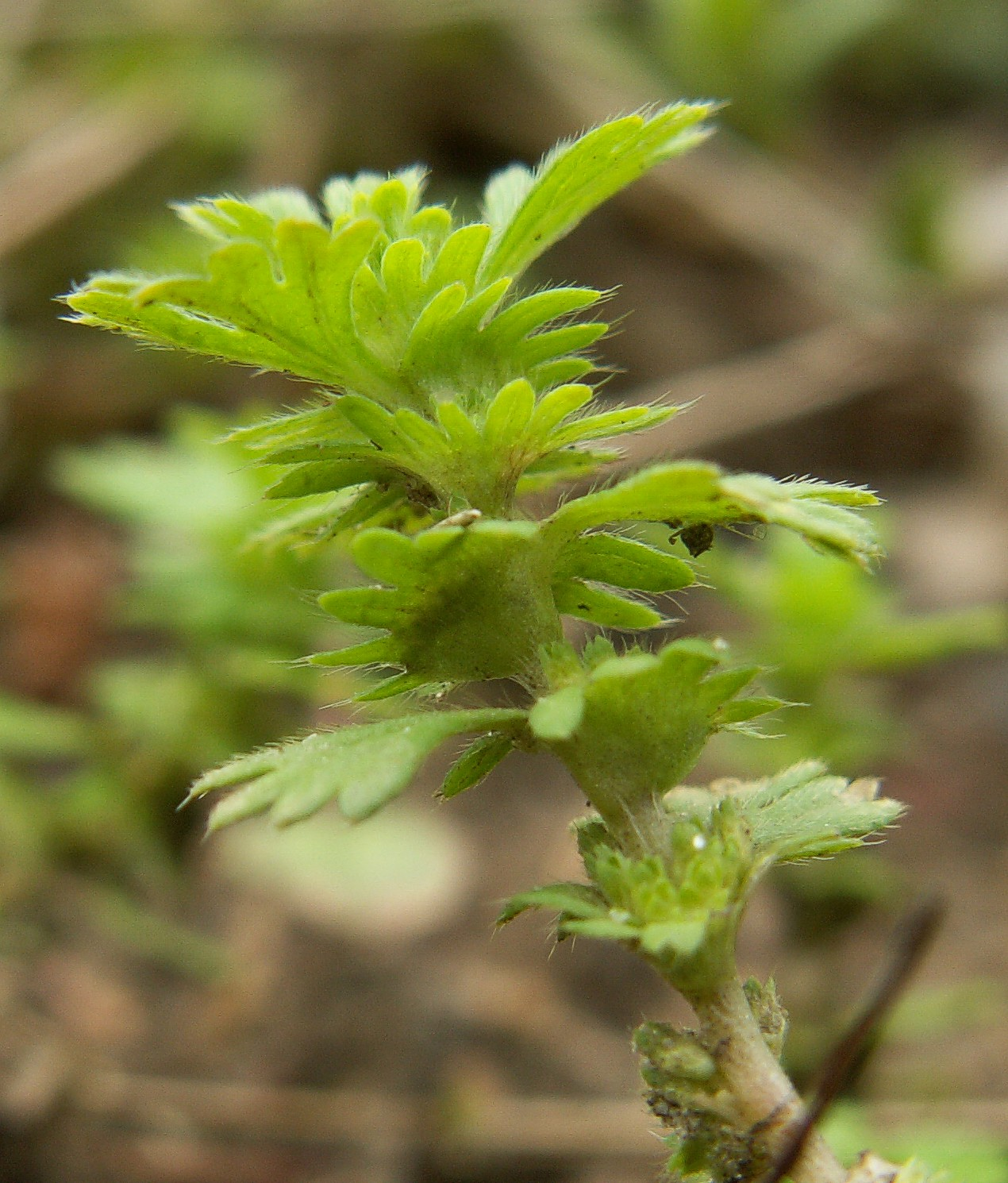 Aphanes arvensis. Goleniow, NW Poland